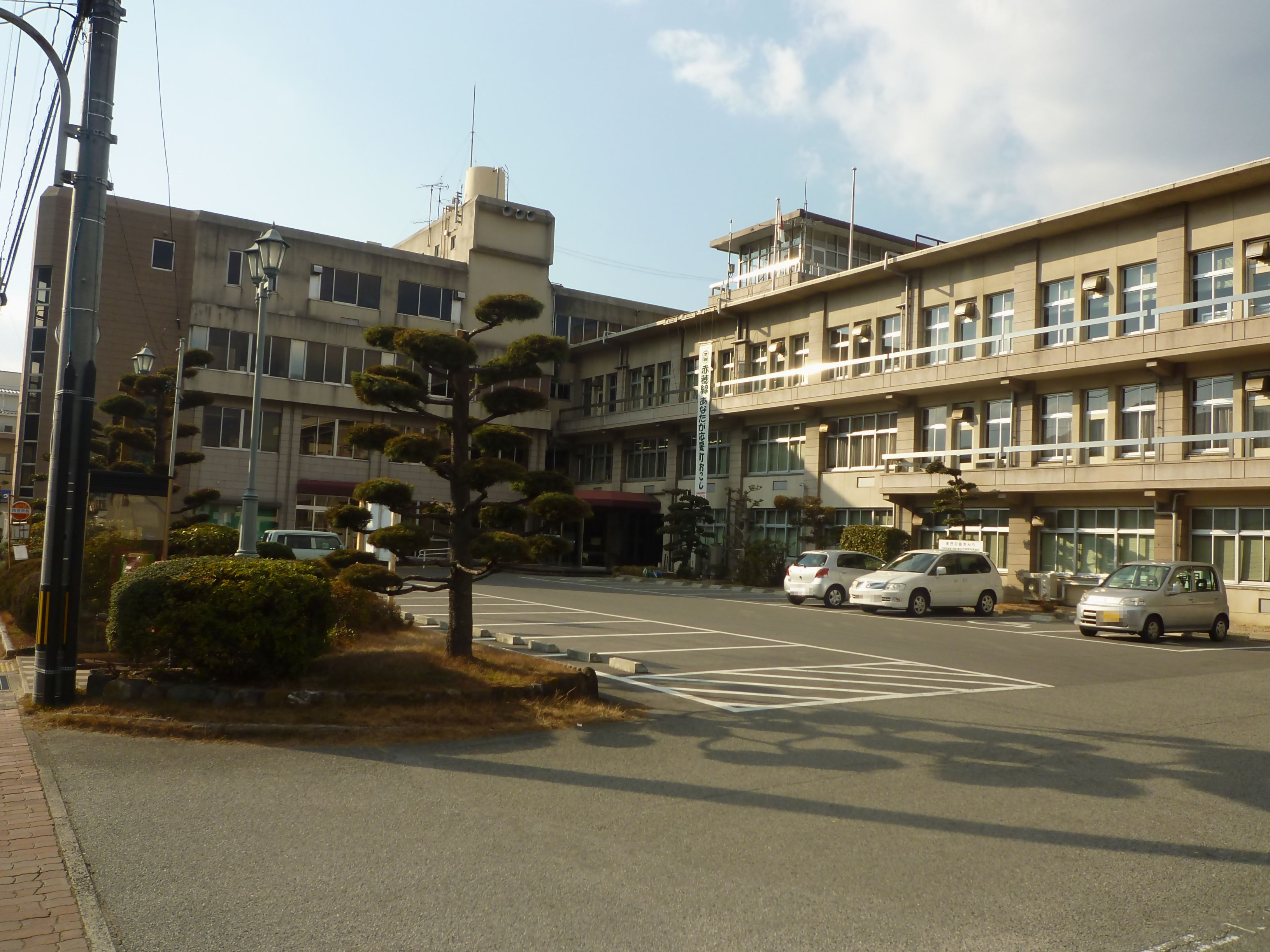 Bizen city office (Bizen City, Okayama Pref, JPN)